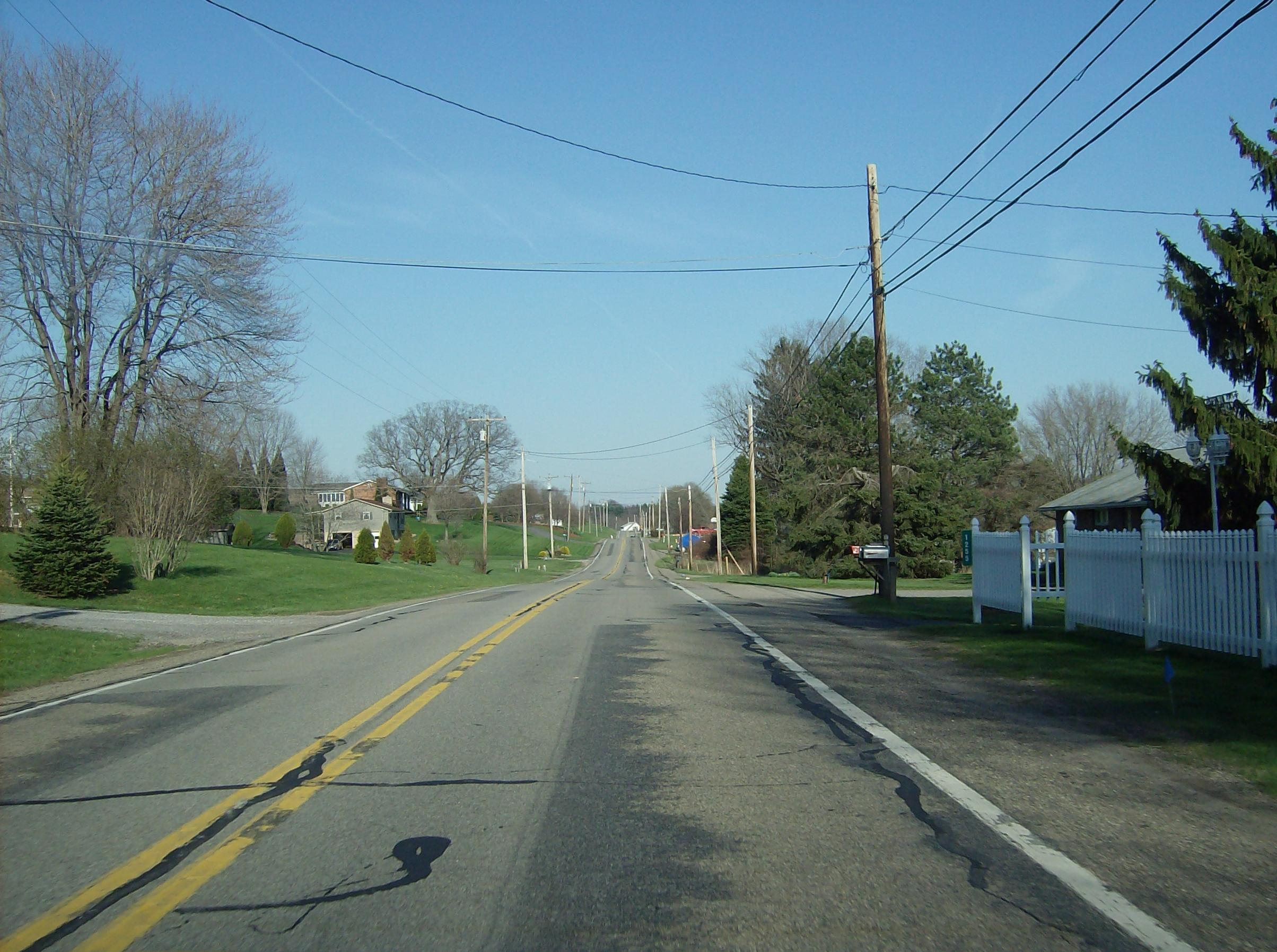 View eastward along Butler Road in western East Franklin Township, Armstrong County, Pennsylvania, United States.